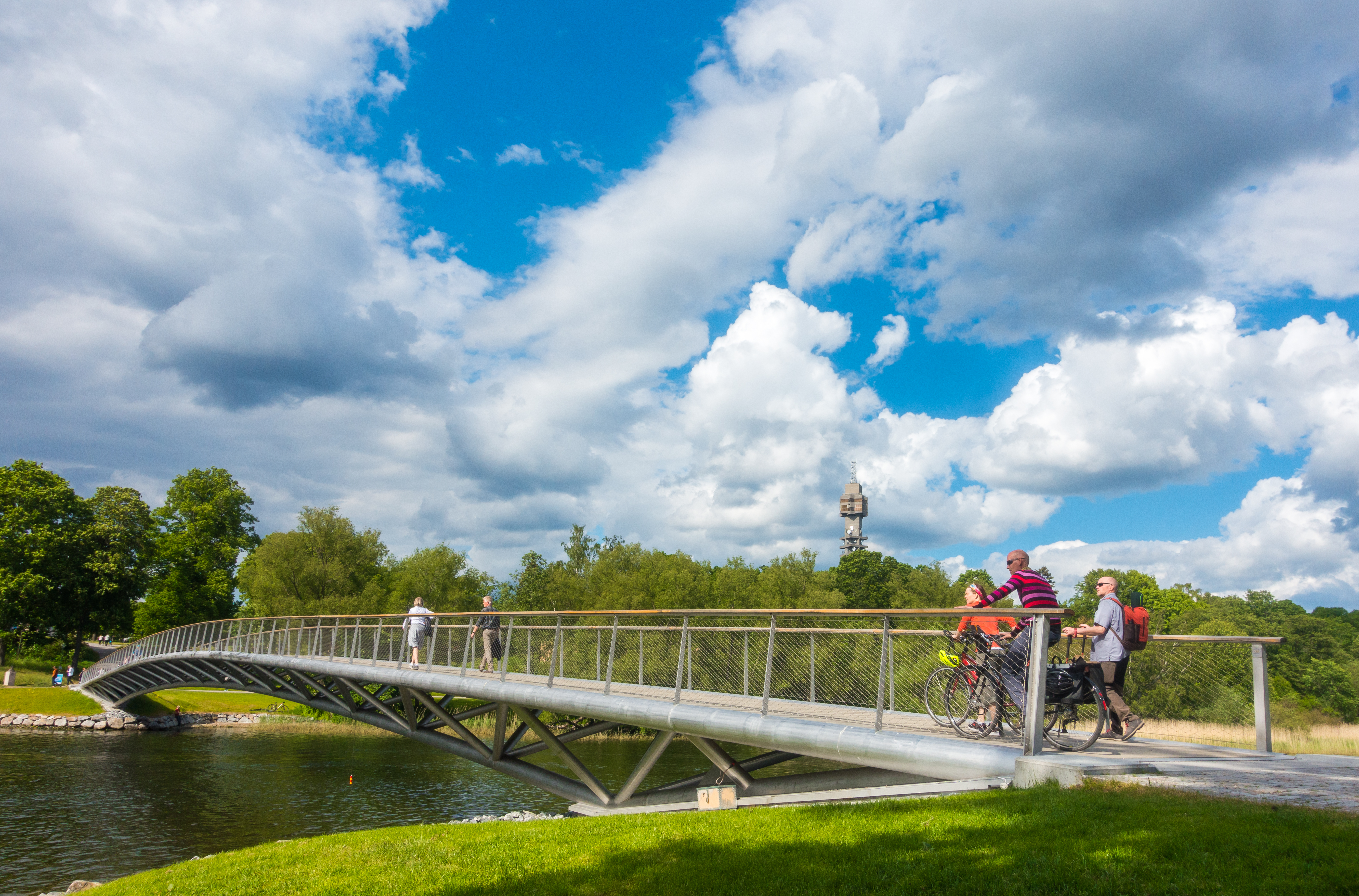 Folke Bernadotte's bridge at Djurgården in Stockholm in June 2020.